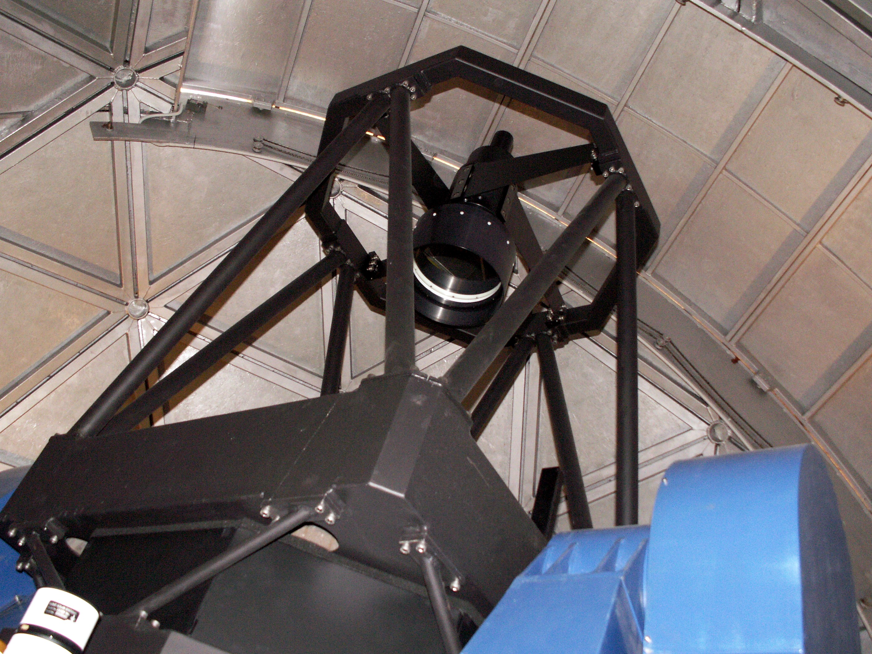 Museum of ethnocosmology, Kulionys, Molėtai district, Lithuania